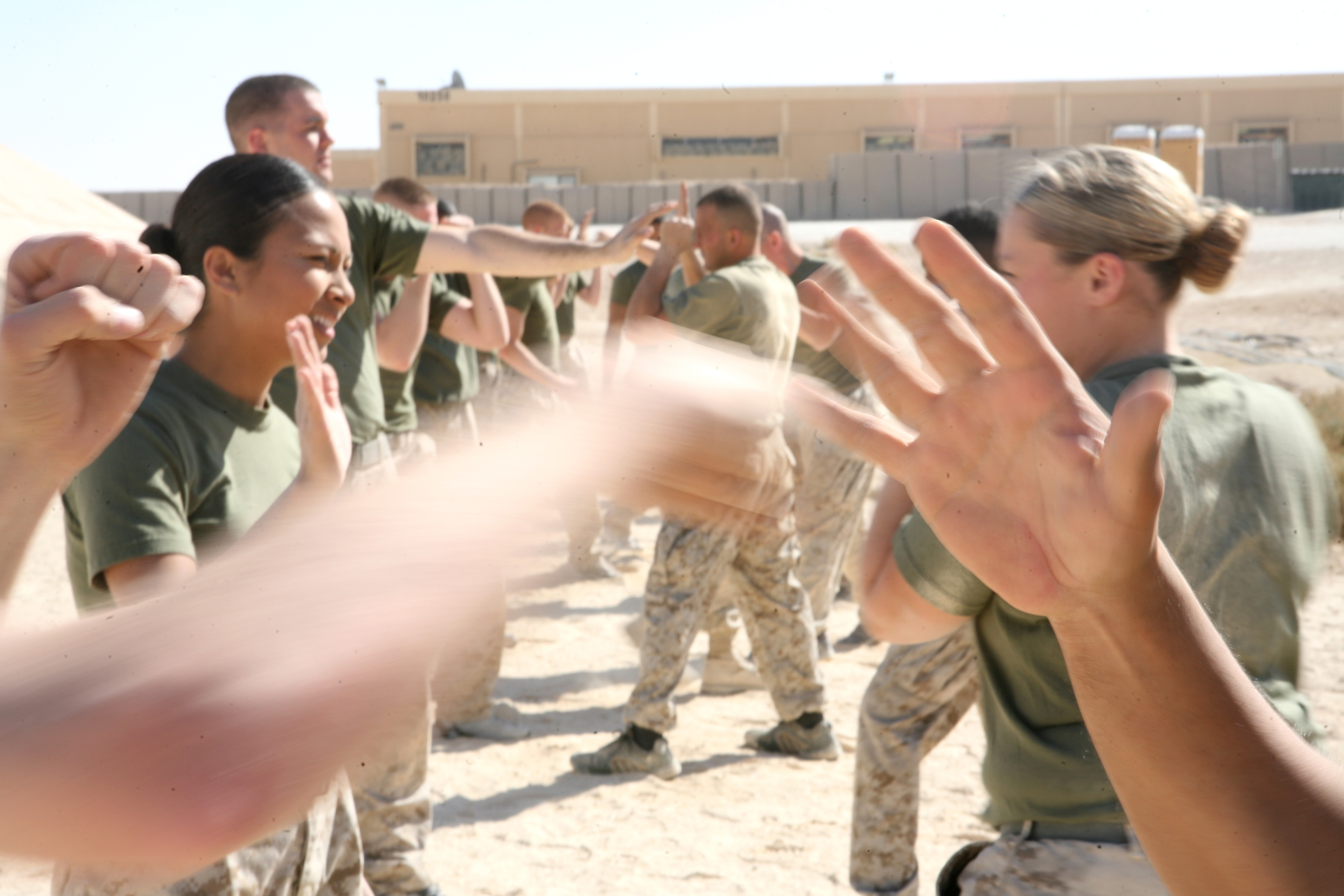 AL ASAD, Iraq- Marine Aviation Logistics Squadron 29 Marines practice the rear-hand punch during a gray belt Marine Corps Martial Arts Program course, Nov. 1. The Marines began their first day of training by remediating tan belt techniques.